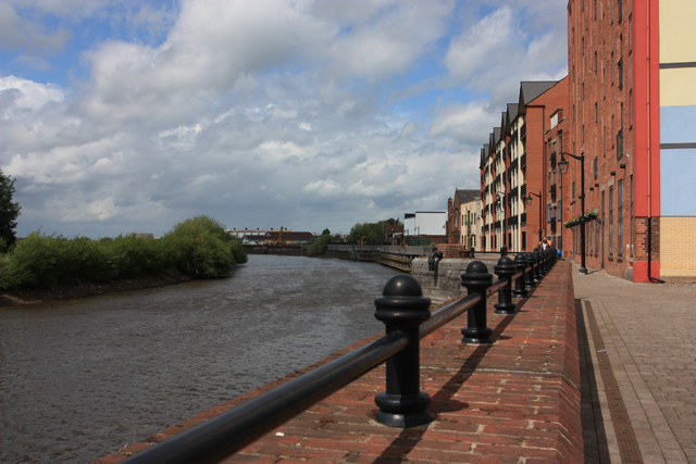 River Trent, Gainsborough, Lincolnshire, England.This view is northwards which is also the direction of flow of the river as it runs to join the Ouse to form the Humber. The tall buildings were originally warehouses fronting onto Bridge Street, and now renovated.